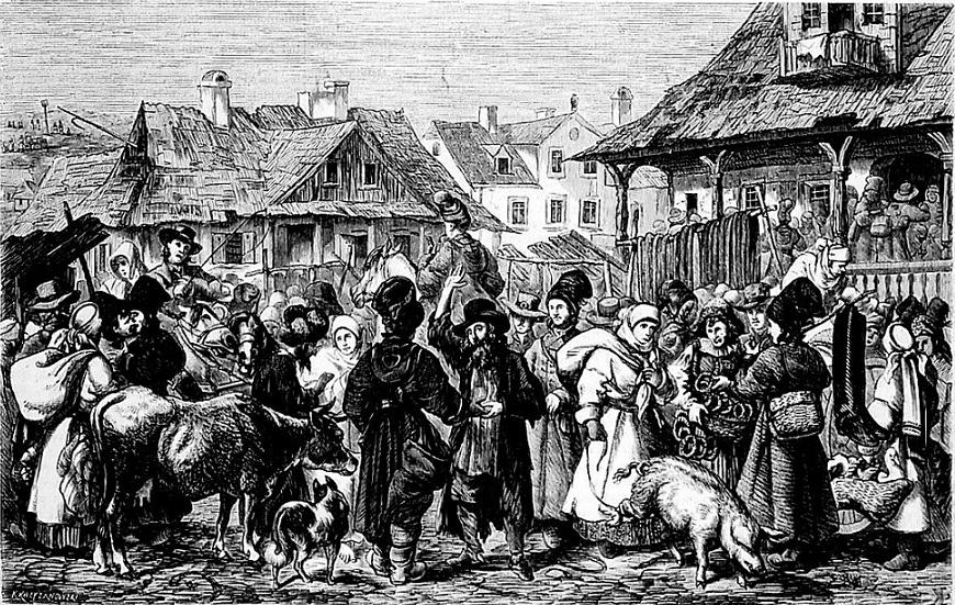 Podillya